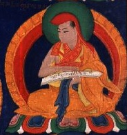 Bakton Zhonnu Tsultrim, 13th Century Tibetan Translator